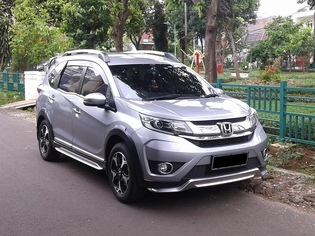 2016 Honda BR-V 1.5 Prestige.